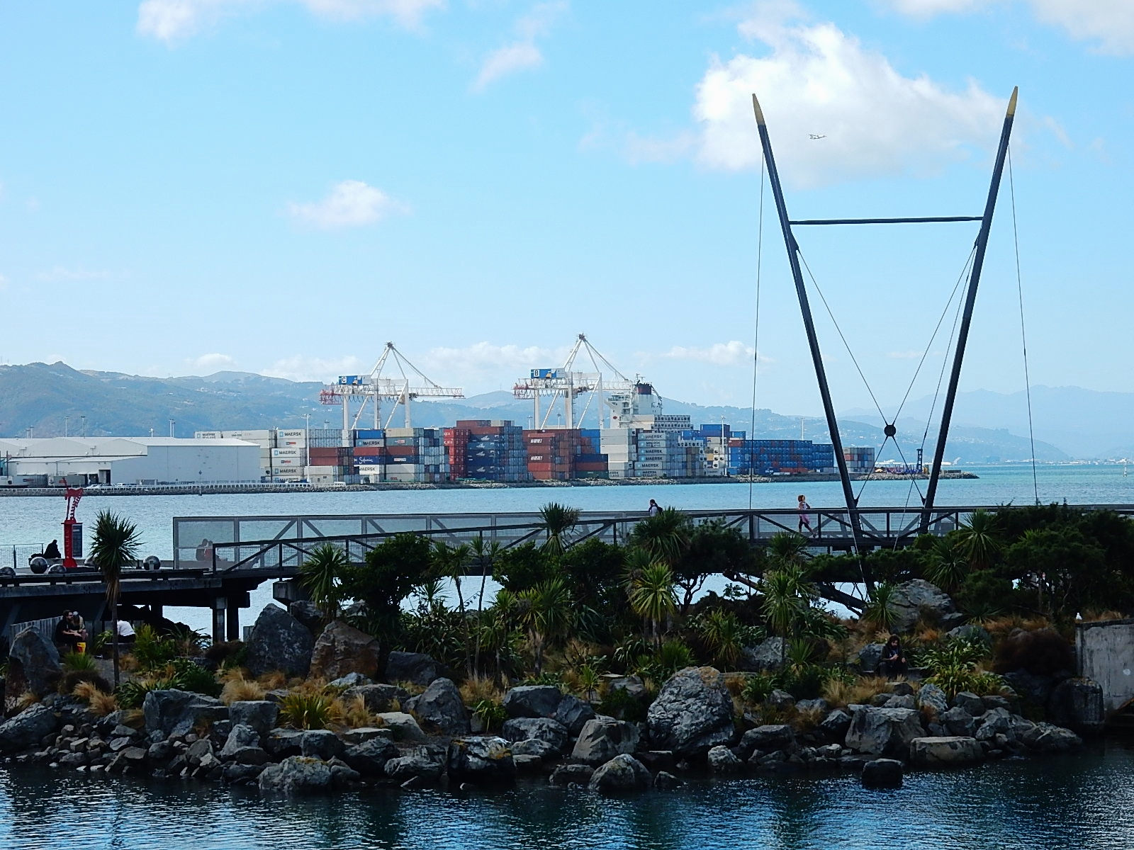 Container Terminal and Rockery from National Museum, Te Papa